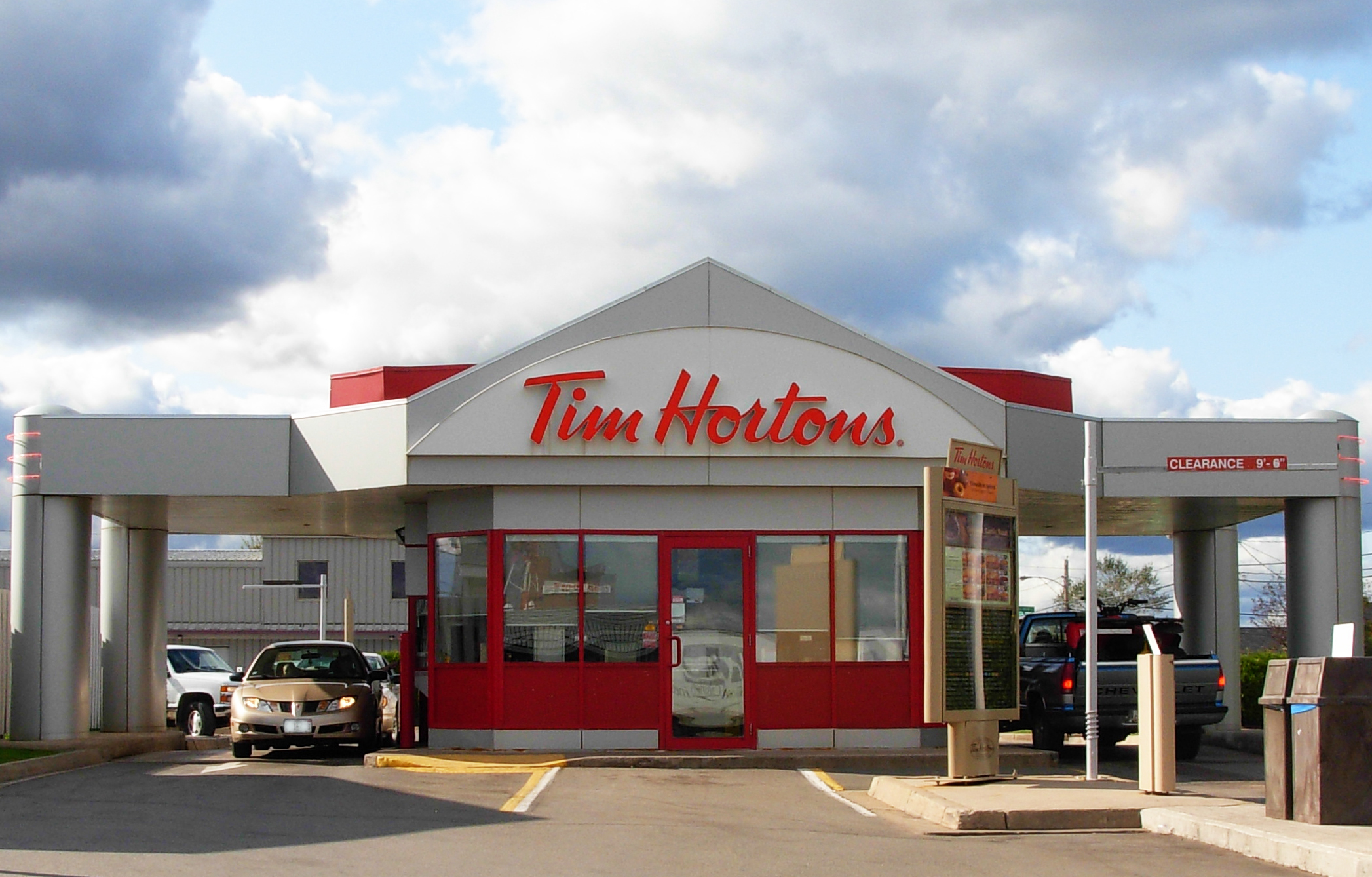 A drive thru only Tim Hortons location in Moncton